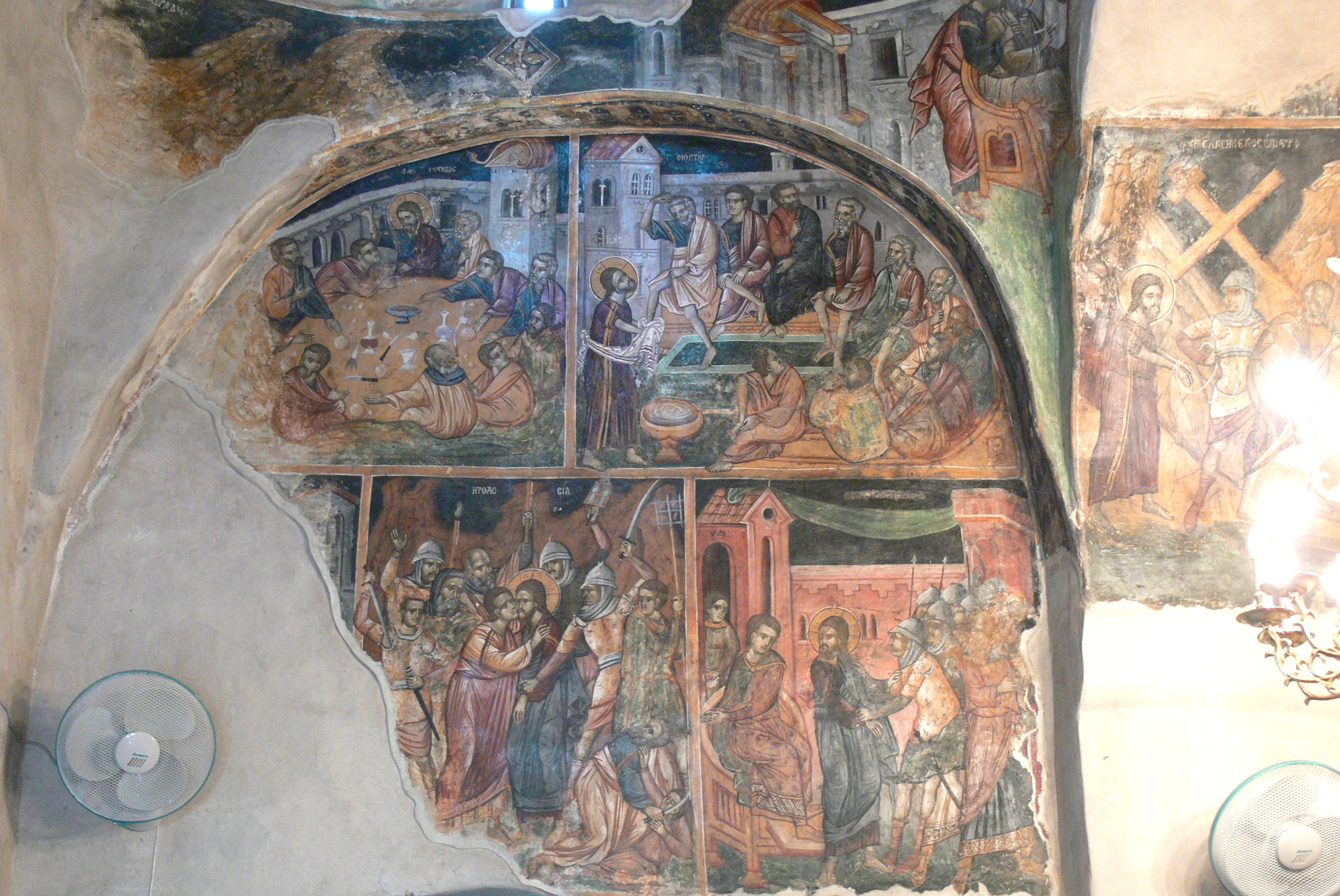 Geroskipou ( Cyprus ). Agia Paraskevi church: Frescos ( 15th century ) showing scenes of the New Testament.